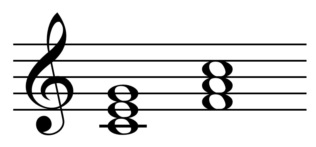 Tonic and subdominant in C.